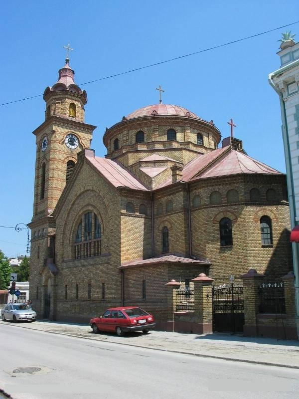 Romanian Orthodox Chrurch